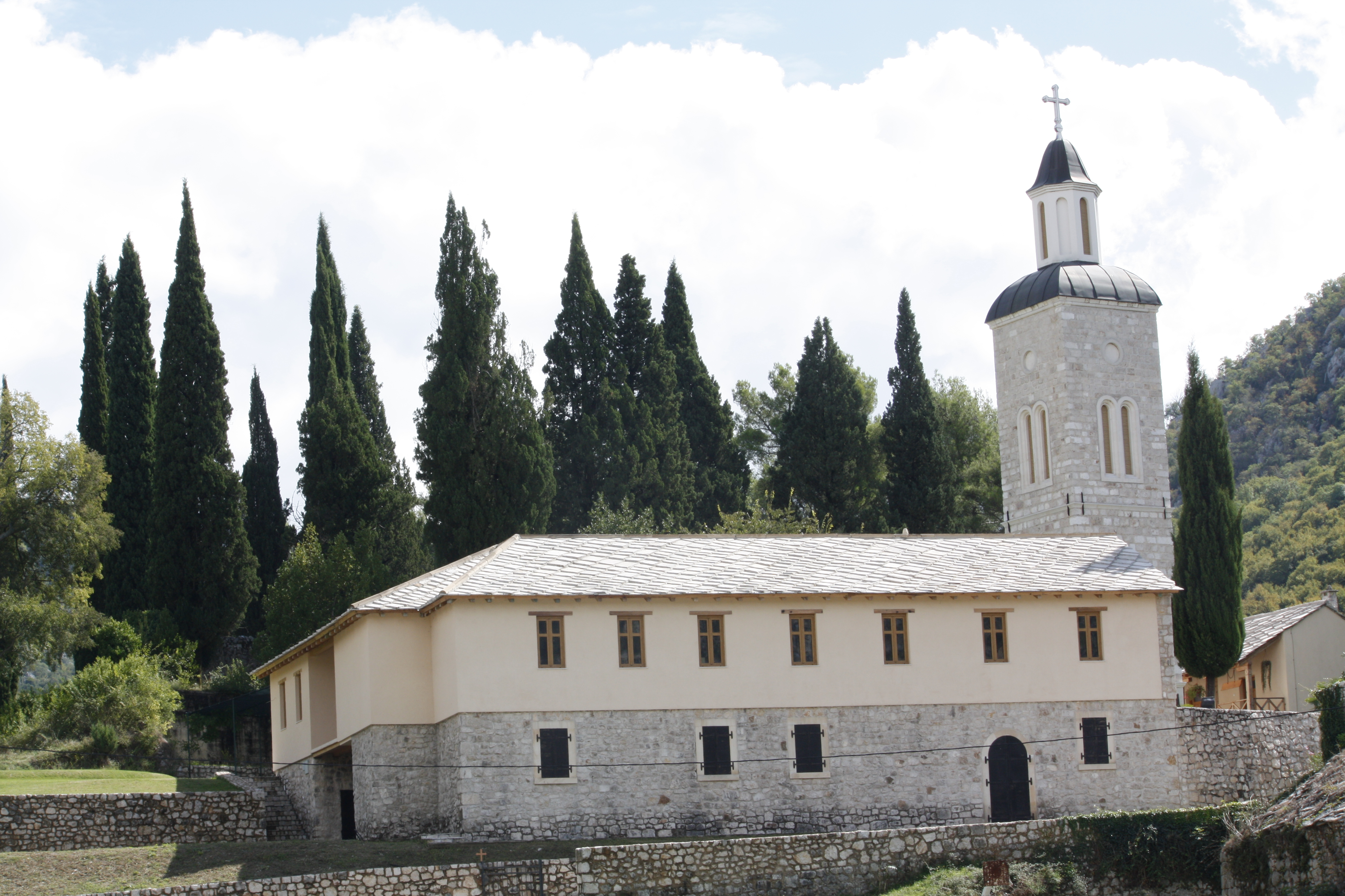 Monastery Žitomislić